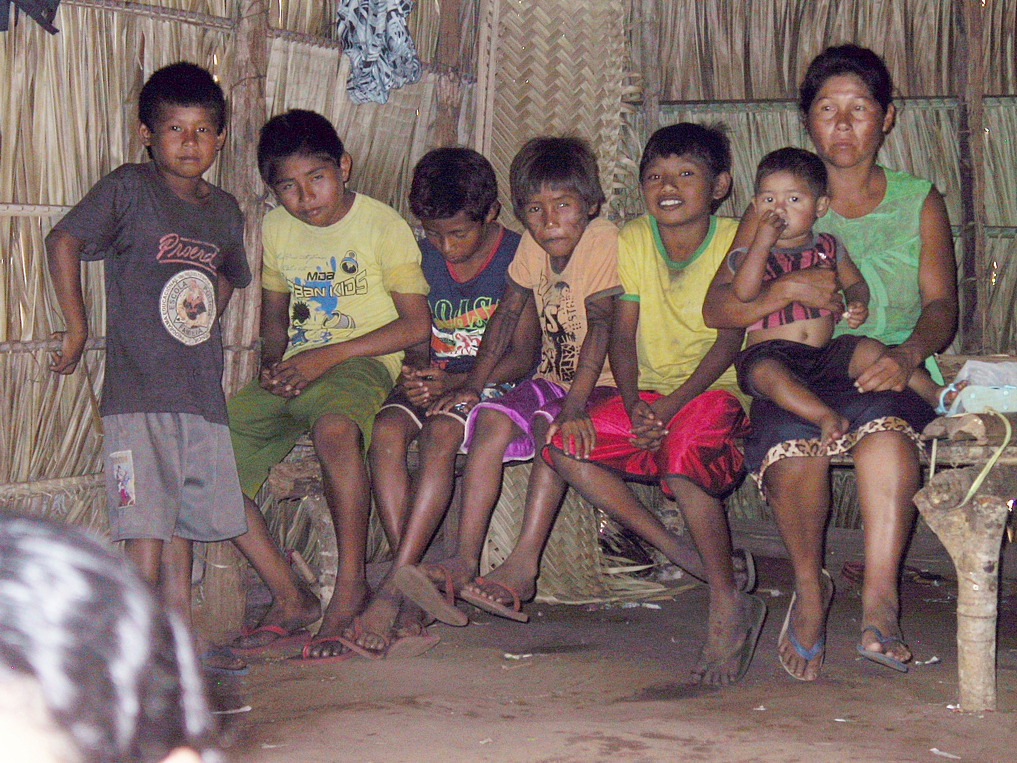 Apinajé The Apinajé are an indigenous people of Brazil, living in the state of Tocantins. In the late 20th century, immigrants encroached on Apinajé lands. Their lands divided when highways such as the Belém-Brasilia Highway and the Trans-Amazonian Highway. Part of their lands separated by the Trans-Amazonian Highway was taken from them and the tribe is working to regain it. Apinajé woman farm subsistence gardens, while men fell trees and plant rice. Common crops include bananas, beans, broad beans, papayas, peanuts, pumpkins, sweet potatoes, watermelons, and yams. Apinajé families raise cattle, pigs, and chickens. Hunting and fishing supplement domestic foods. In the past, babaçu nuts were sold for cash. Apinajé people speak the Apinayé language, a Macro-Jê language. It is spoken in six villages by the majority of the tribe. Some Apinajé people also speak Portuguese. See: Apinajé